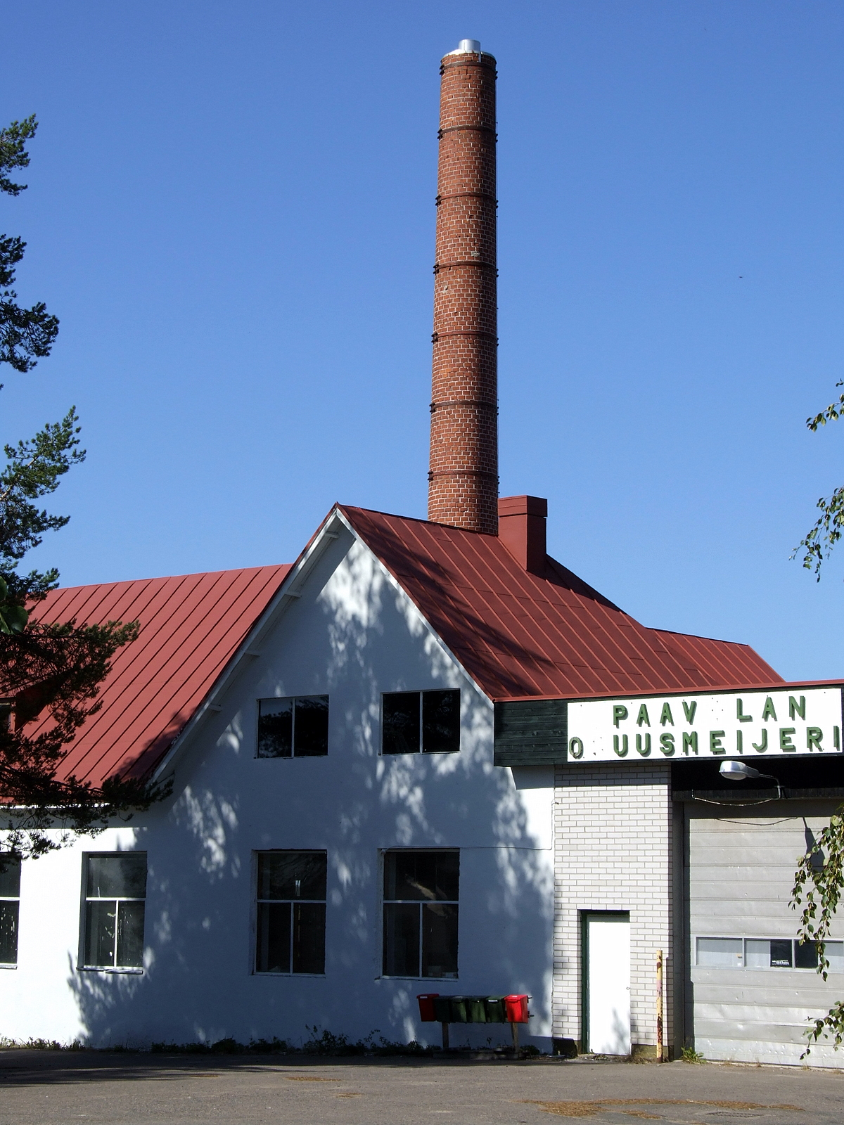 Paavola Cooperative Dairy in the village of Paavola